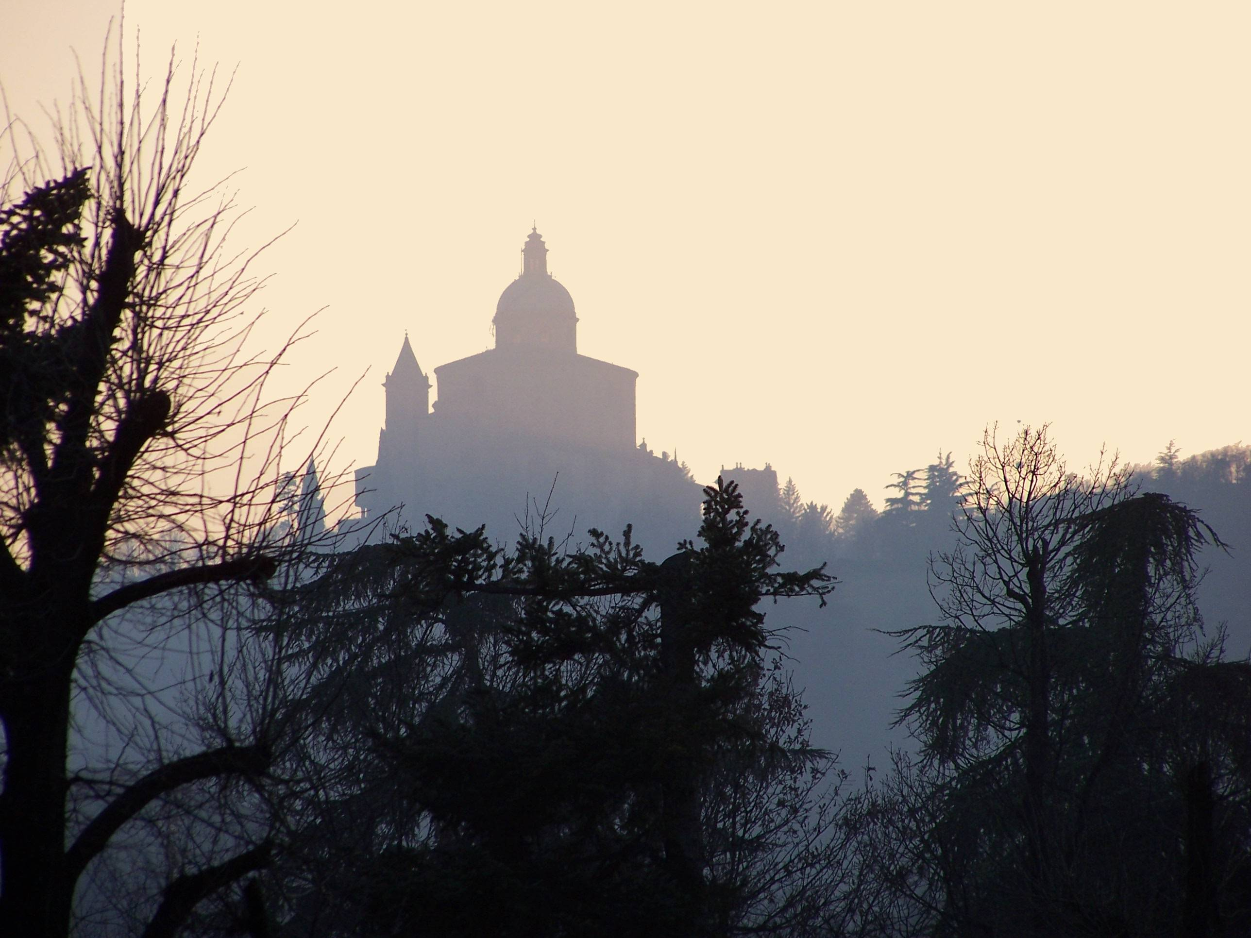 View from Via Saragozza of the sanctuary of San Luca, located on a hill above Bologna, Italy. Picture taken by Klenje